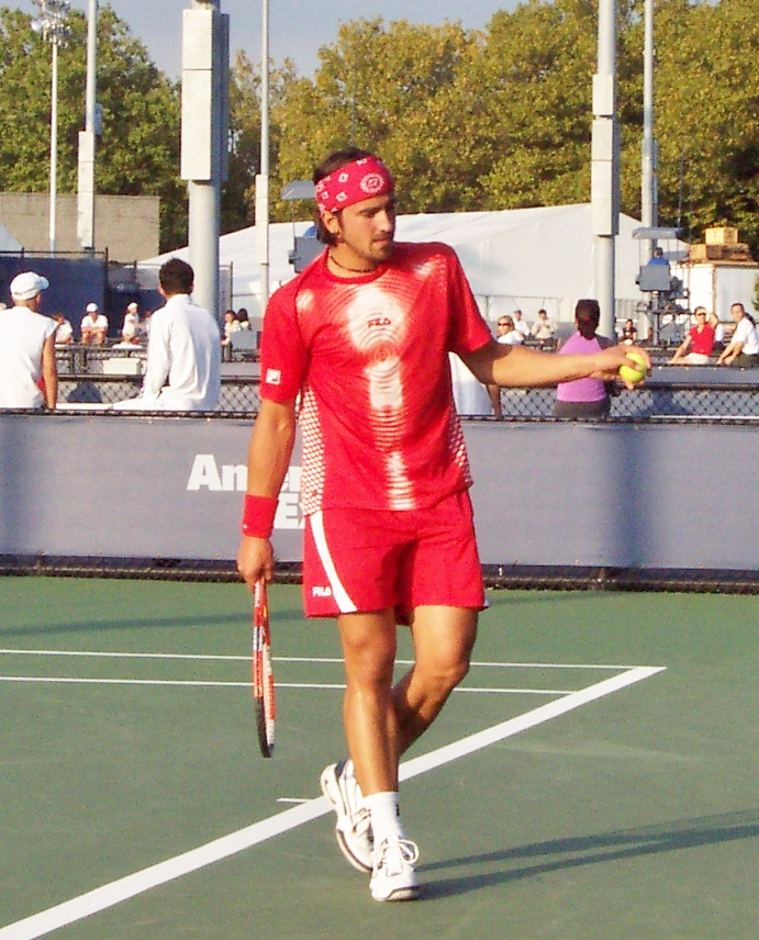 Tipsarevic at the 2004 US Open Qualifying Rounds